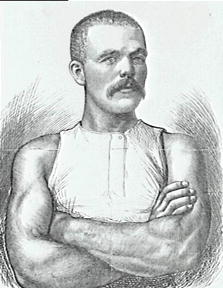 Etching of Bil Beach, Champion Sculler of the World (1883-1887).